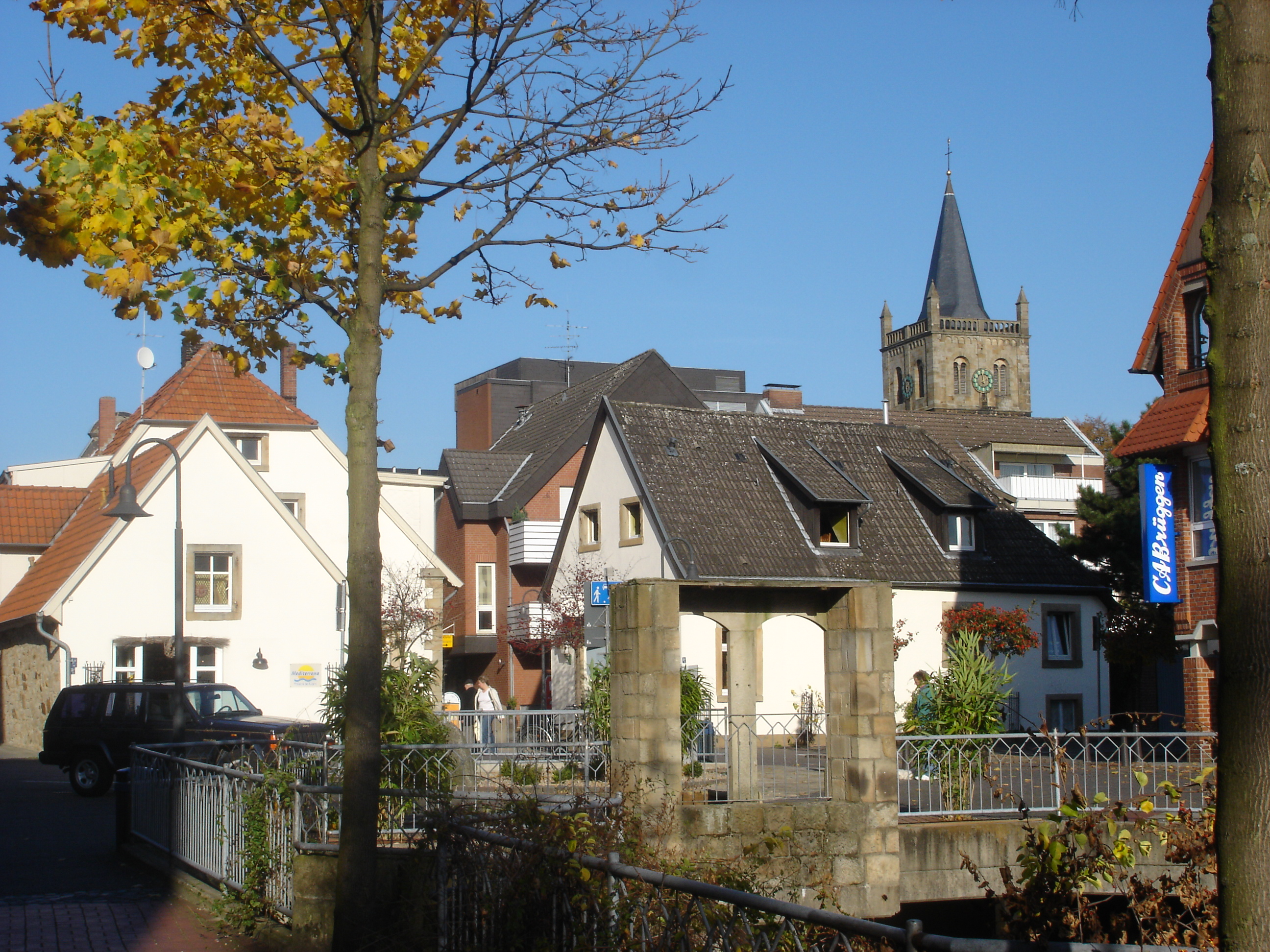 Panoramashot of the city center of Ibbenbüren: "Alter Posthof" with protestantic church "Christuskirche" in the back This image shows a heritage building in Germany, located in the North Rhine-Westphalian city Ibbenbüren (no. A 009). This image shows a heritage building in Germany, located in the North Rhine-Westphalian city Ibbenbüren (no. A 036).